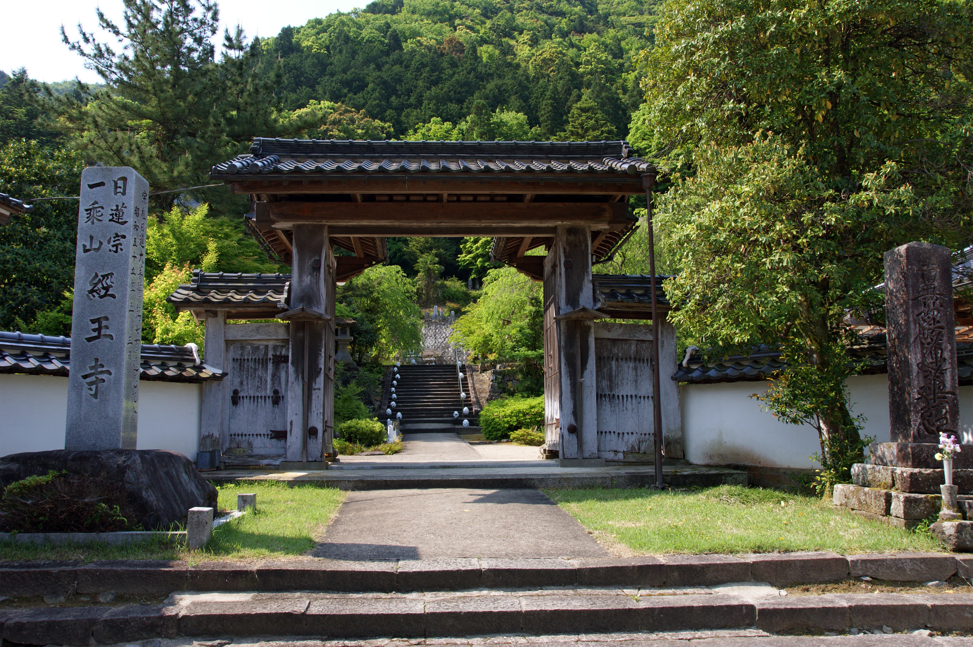 Kyooji in Izushi, Toyooka, Hyogo prefecture, Japan